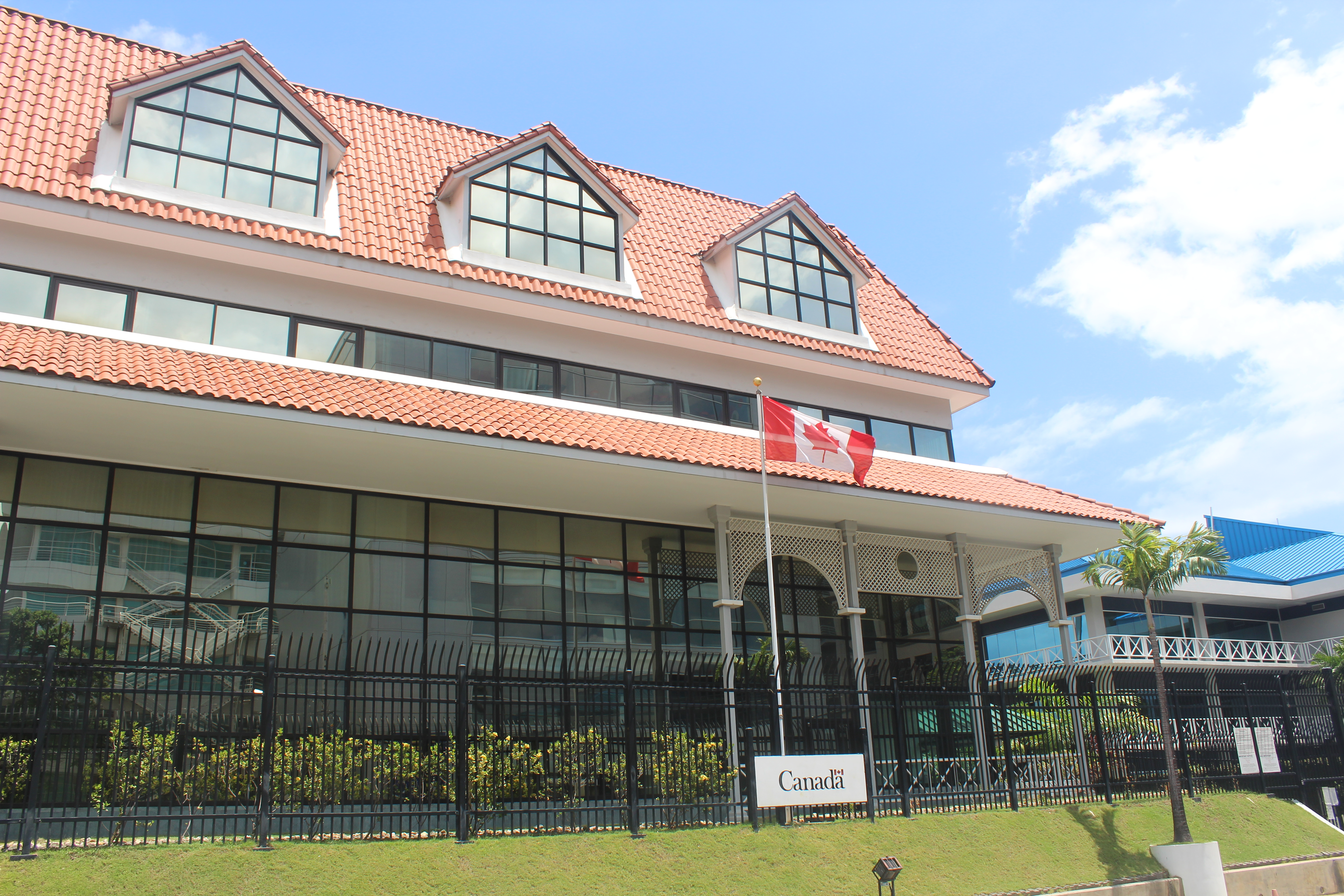 Front entrance of Canadian High Commission, Port of Spain, Trinidad & Tobago